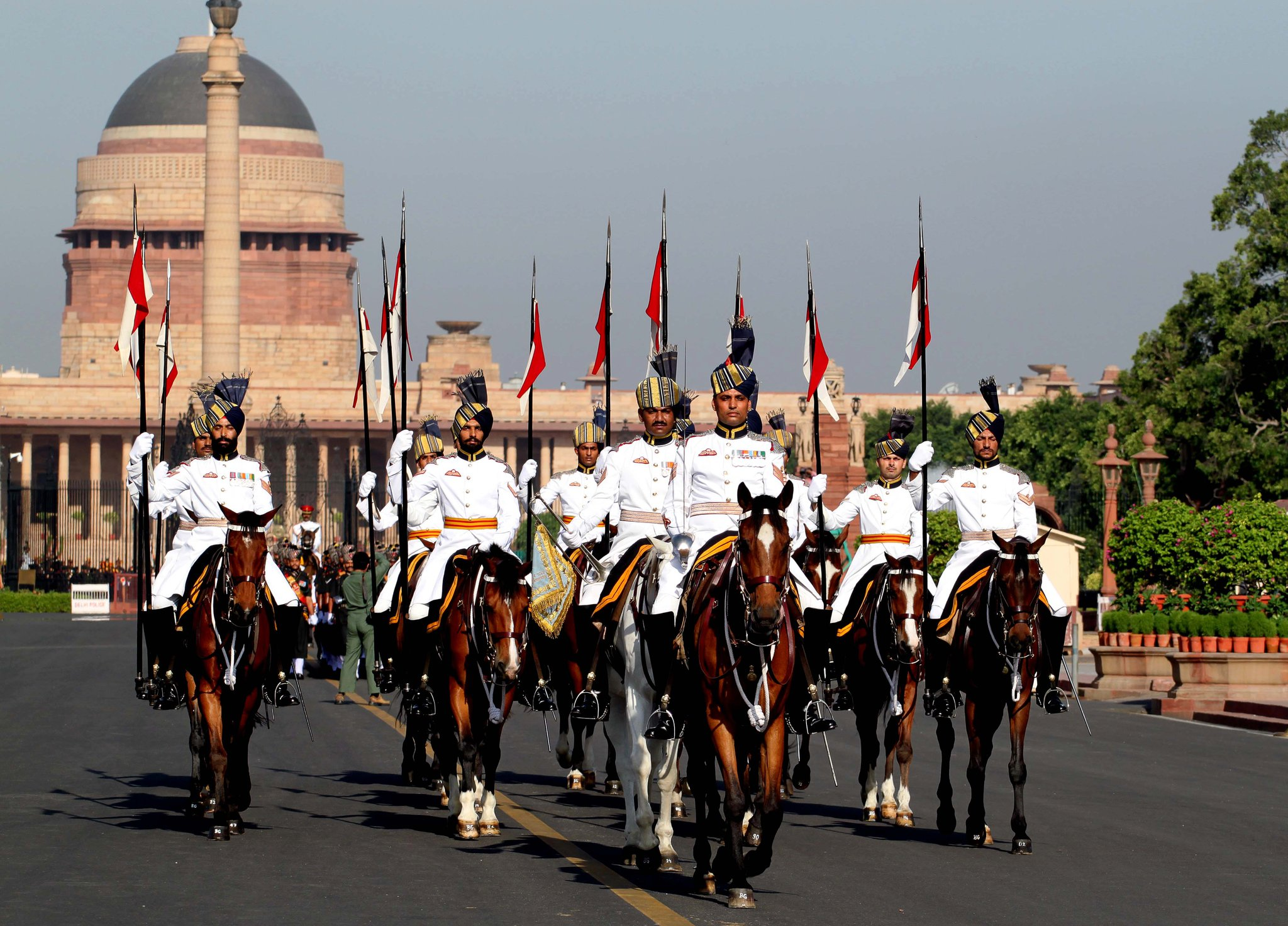 Presidents' Body Guard riding horses during change of guard.